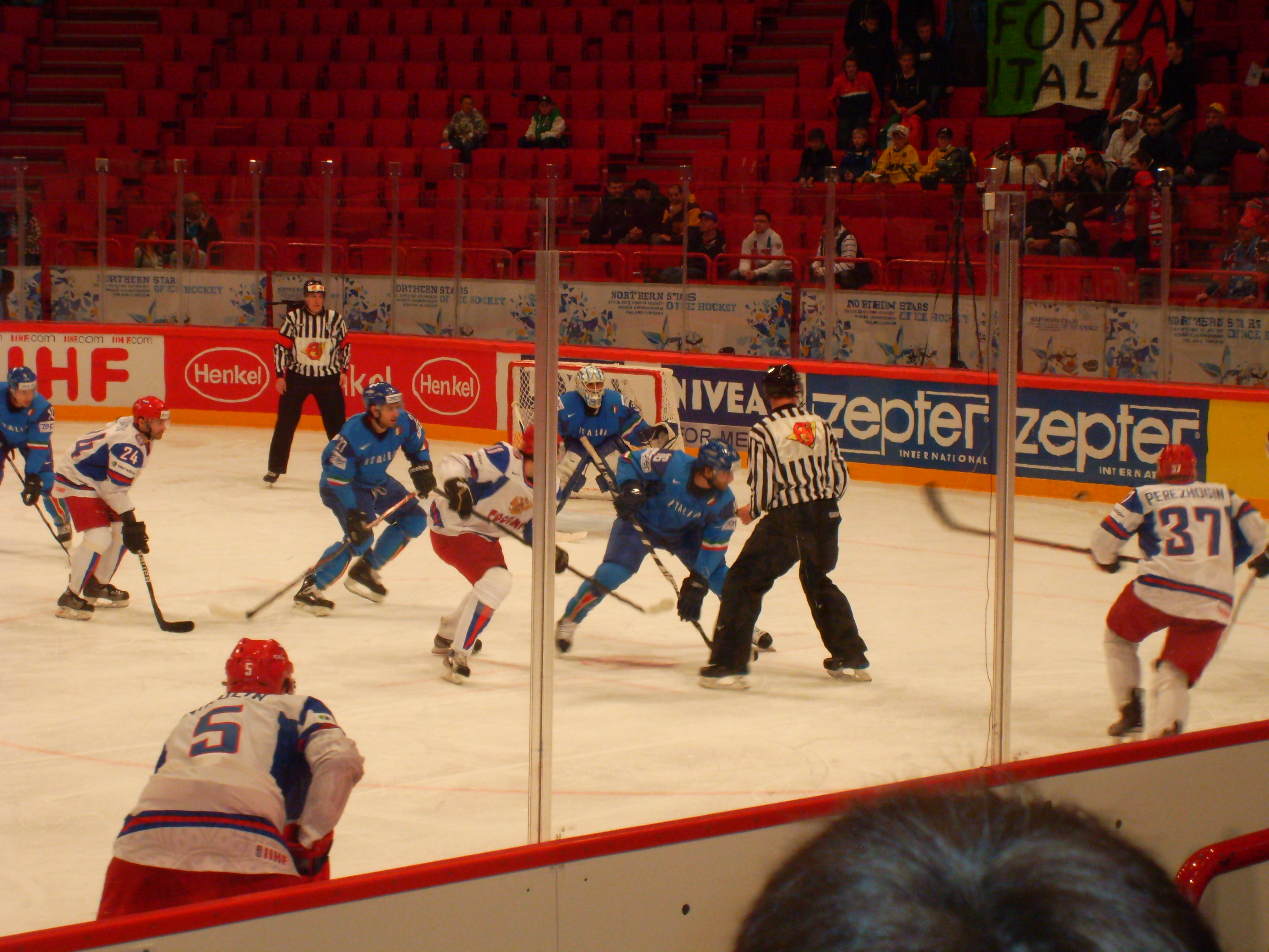 Game between Italy vs Russia in IIHF World Championship 2012.